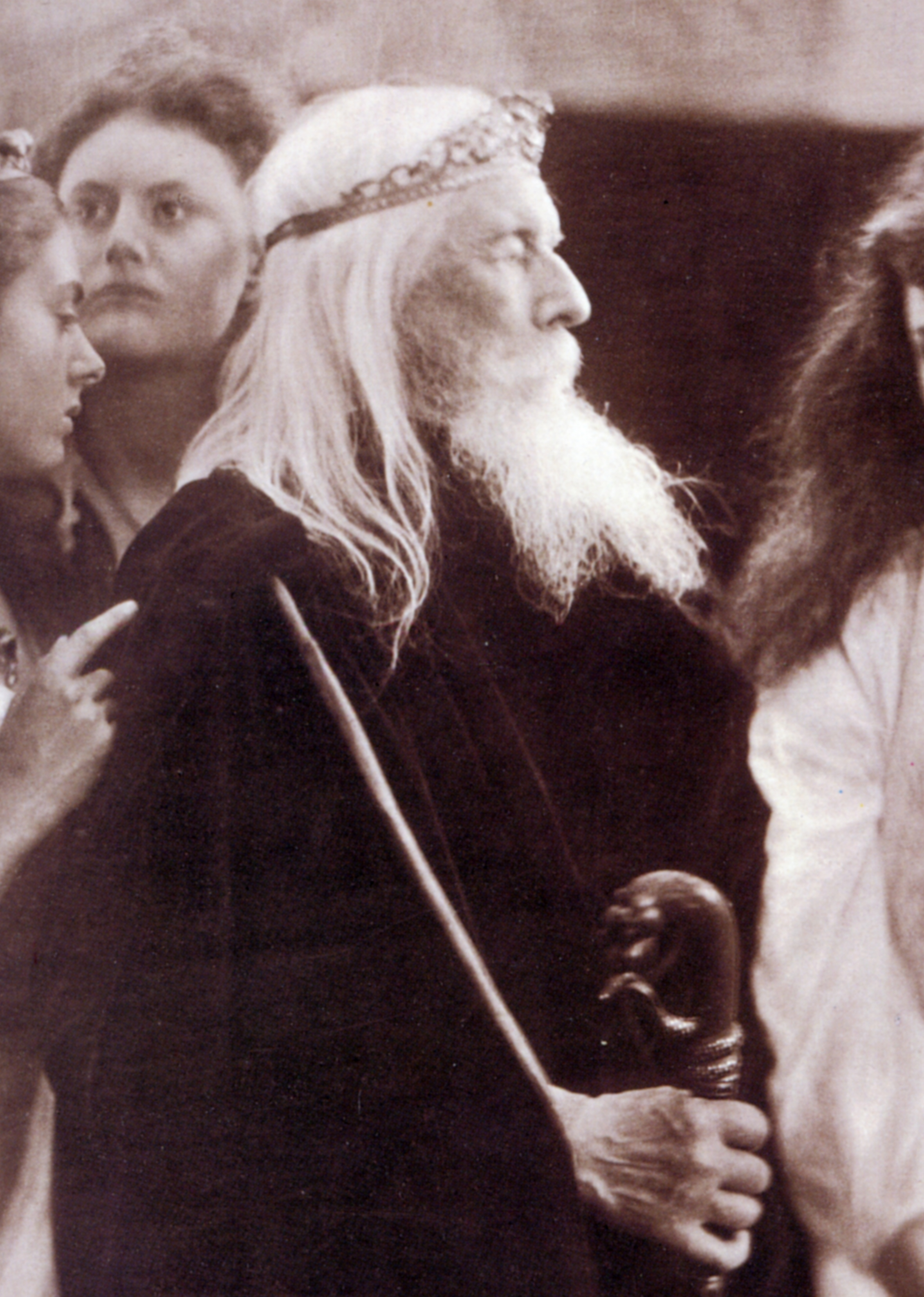 Detail of Charles Hay Cameron as King Lear in "King Lear allotting his Kingdom to his three daughters". Carbon print, 345 x 285mm (13 5/8 x 11 1/4").